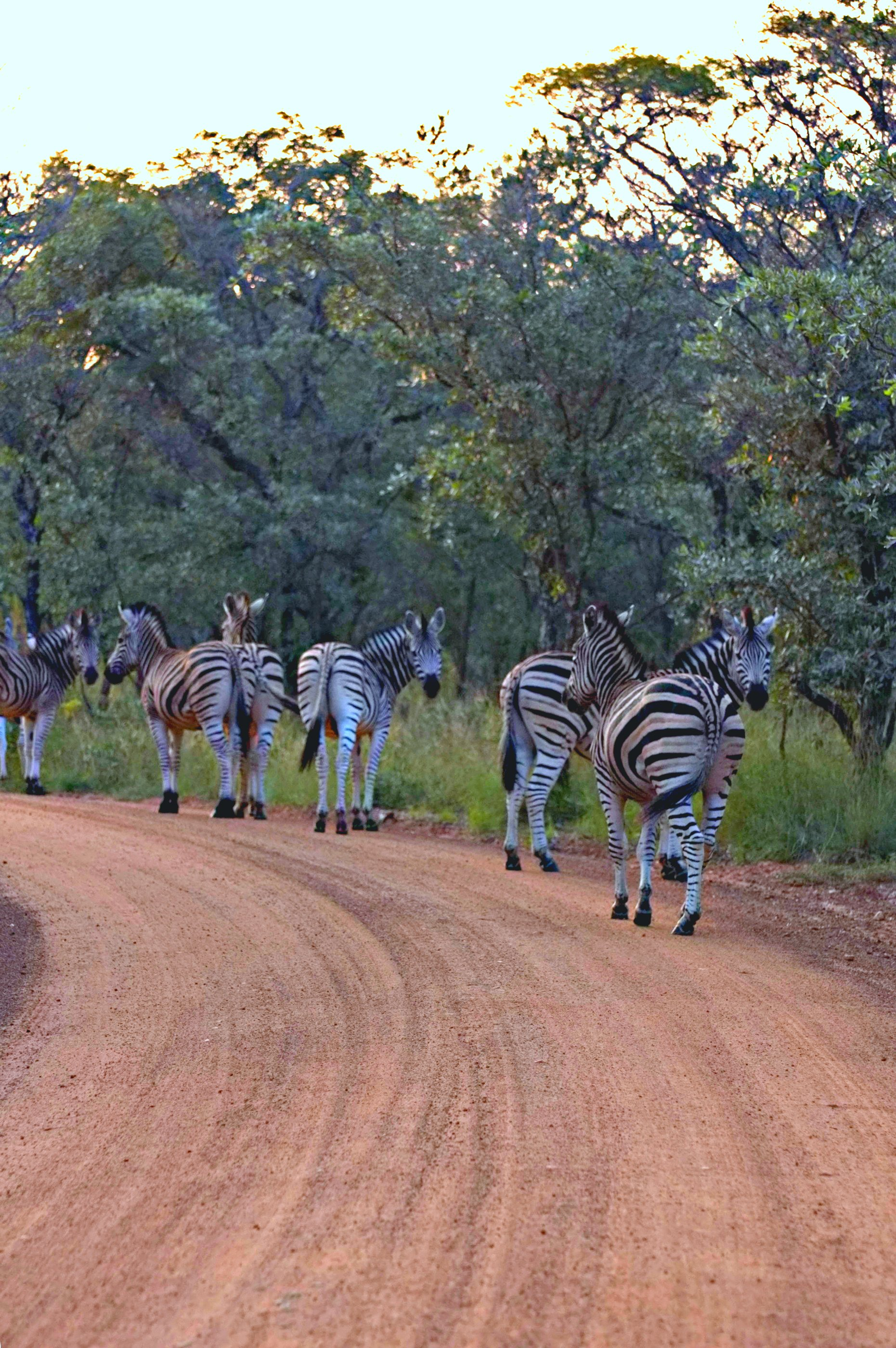 Zebras in Marakele National Park - South Africa